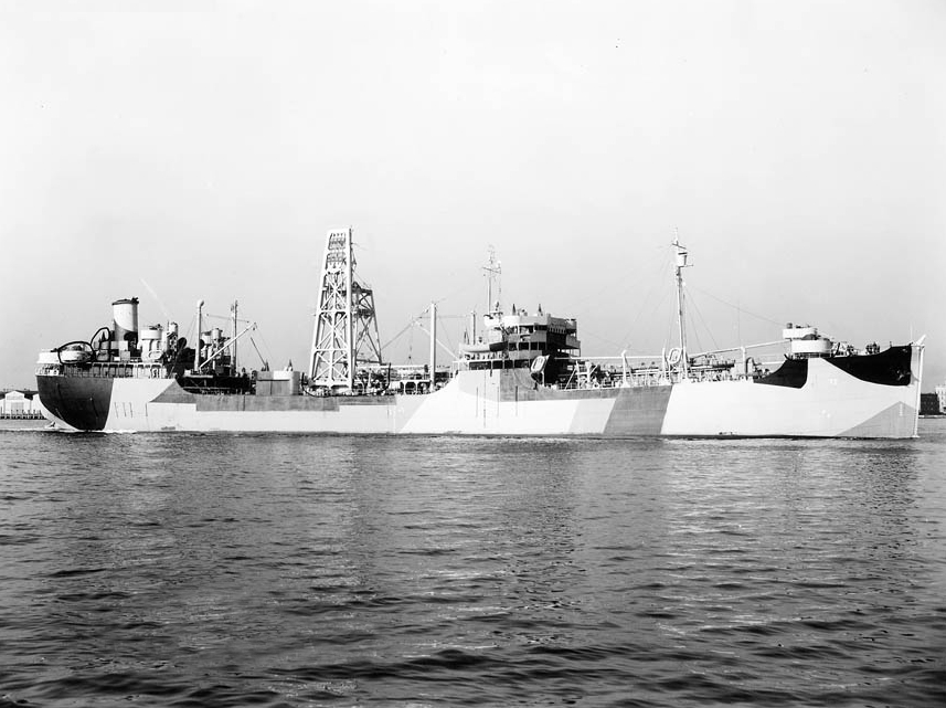 The U.S. Navy fleet oiler USS Niobrara (AO-72) off the Norfolk Naval Shipyard on 18 April 1944. A large 160-ton derrick has been added amidships to lift LCT's on and off of LST's at advance bases. Her camouflage is Measure 32 Design 5AO.